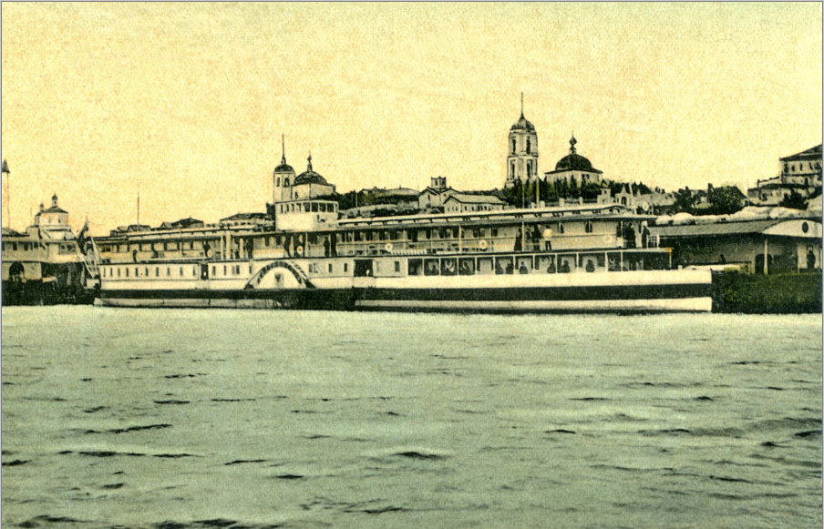 View of Tsaritsyn (Volgograd) from theVolga river